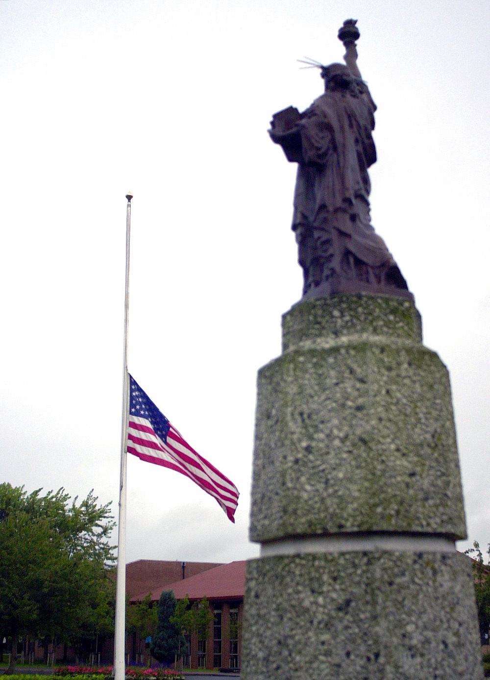 "Lady Liberty" looks on as "Old Glory" flies at half mass in Liberty Circle at RAF Lakenheath, UK as a tribute to the thousands who fell in the recent terrorist attacks on the World Trade CenterÕs Twin Towers in New York and at the Pentagon on 11 September 2001.